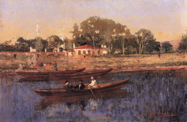 Boats in Bosphorus, painting by Symeon Sabbides